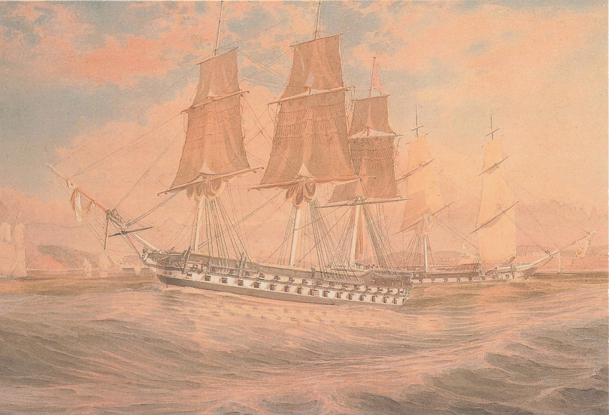 Two ships of the South America squadron